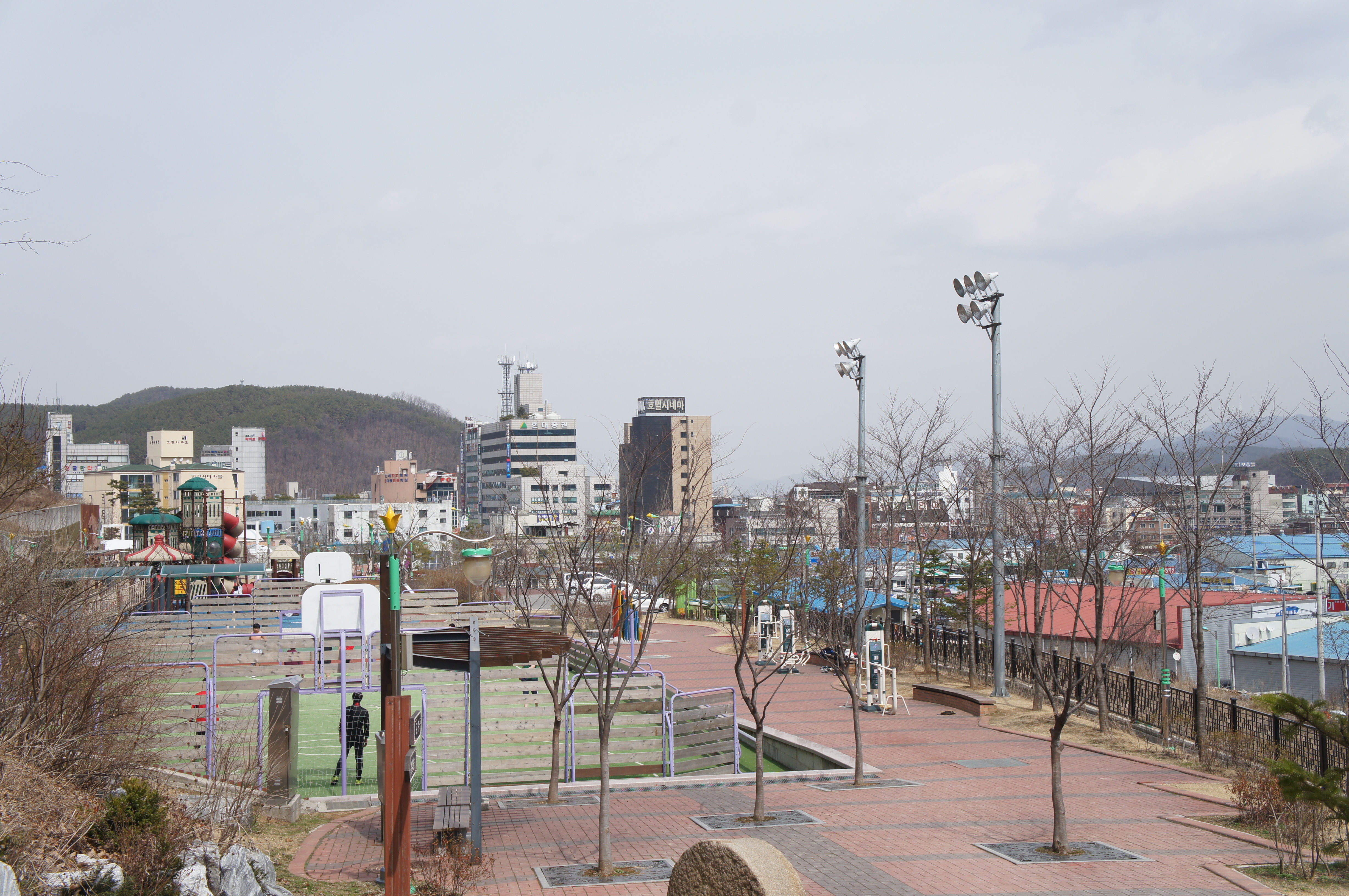 city view (10)